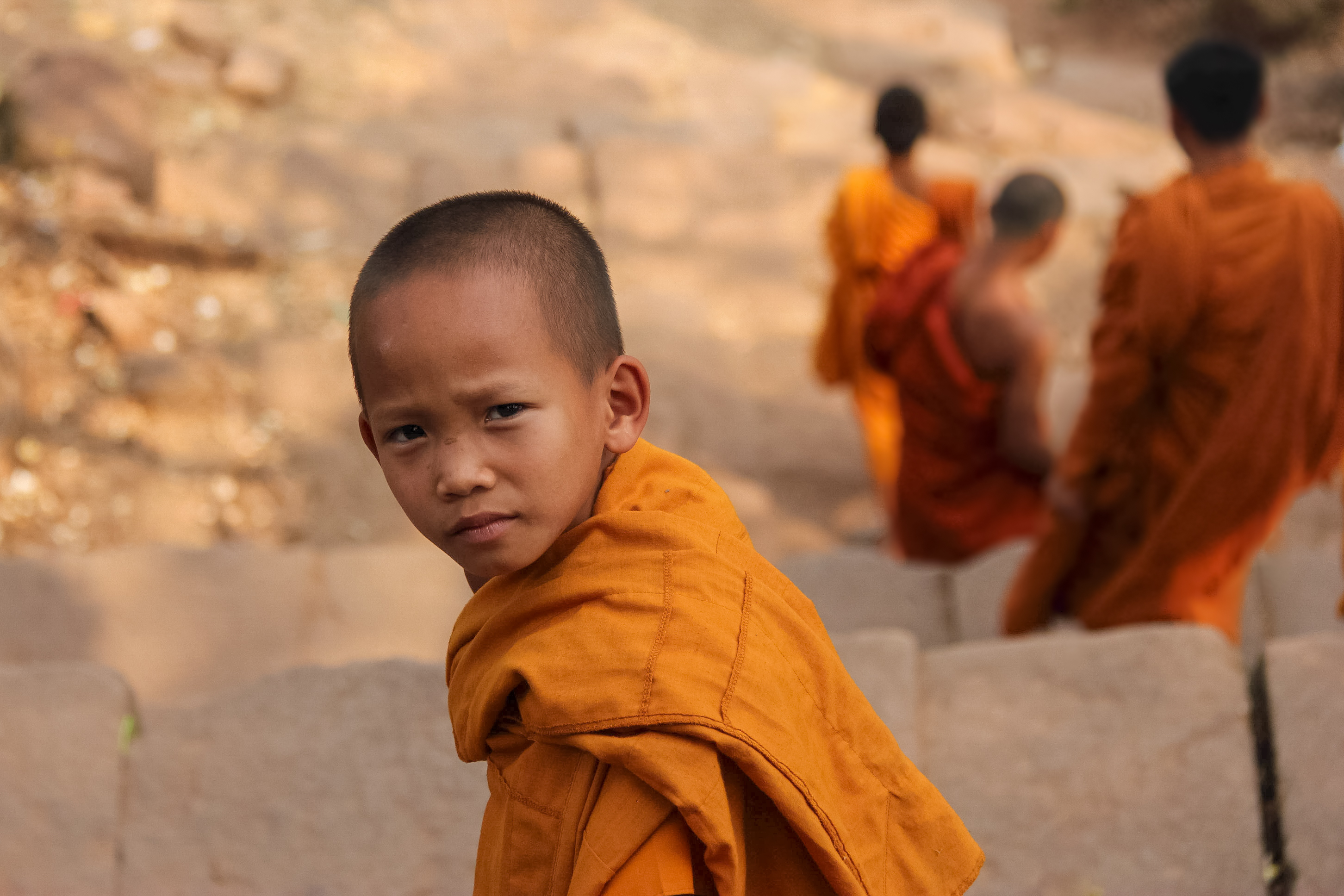 Buddhist child monk going down the steps of Wat Phou in Champasak